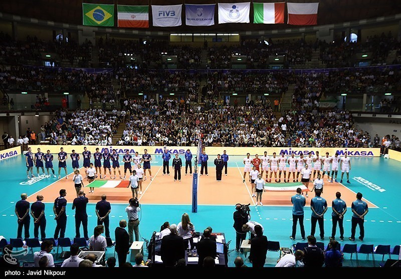 Italy defeated Iran in straight sets 3-0 (25-19, 25-22, 25-23) in the FIVB Volleyball World League 2014.